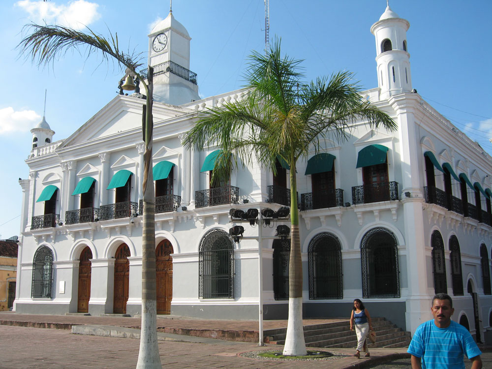 Building in Villahermosa, Tabasco.